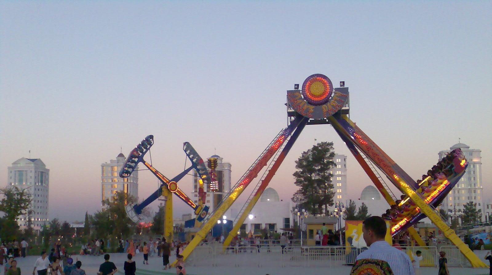 Ashgabat Ertekiler Dunyasi